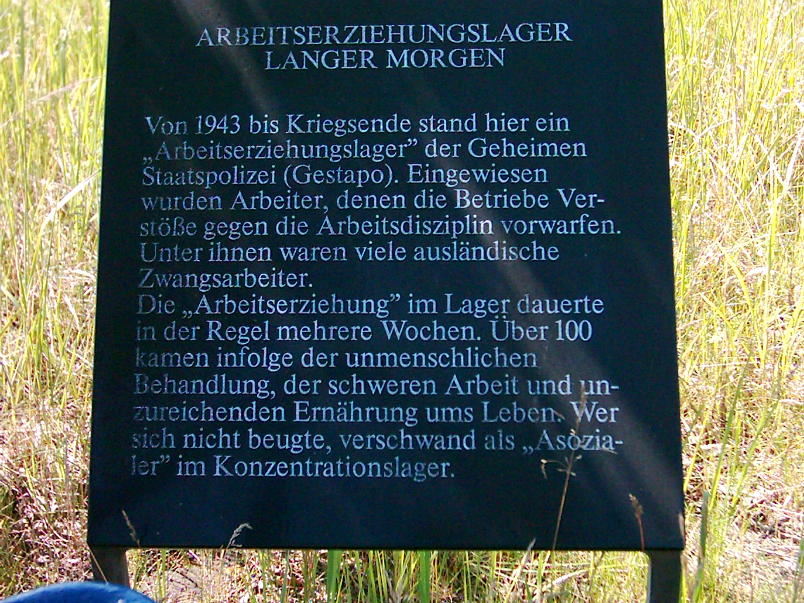 Commemorative plaque of World War II work camp Langer Morgen in Hamburg, Germany.